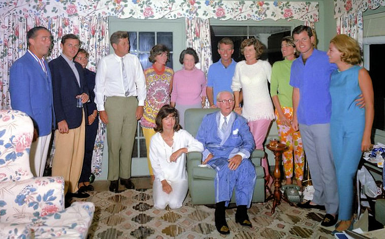 Kennedy family present for Joseph P. Kennedy, Sr.'s 75th birthday. Kennedy Sr. and Rose Kennedy pose with some of their children and their children's spouses in the Kennedy home's sunroom in Hyannis Port, Massachusetts. The group gathered to celebrate as follows: (L-R) Kneeling: First Lady Jacqueline Kennedy; Joseph P. Kennedy, Sr. (L-R) Standing: R. Sargent Shriver; Stephen Smith, Sr.; Ethel Kennedy; President John F. Kennedy; Jean Kennedy Smith; Rose Kennedy; Robert F. Kennedy; Eunice Kennedy Shriver; Patricia Kennedy Lawford; Edward (Ted) Kennedy; Joan Kennedy.